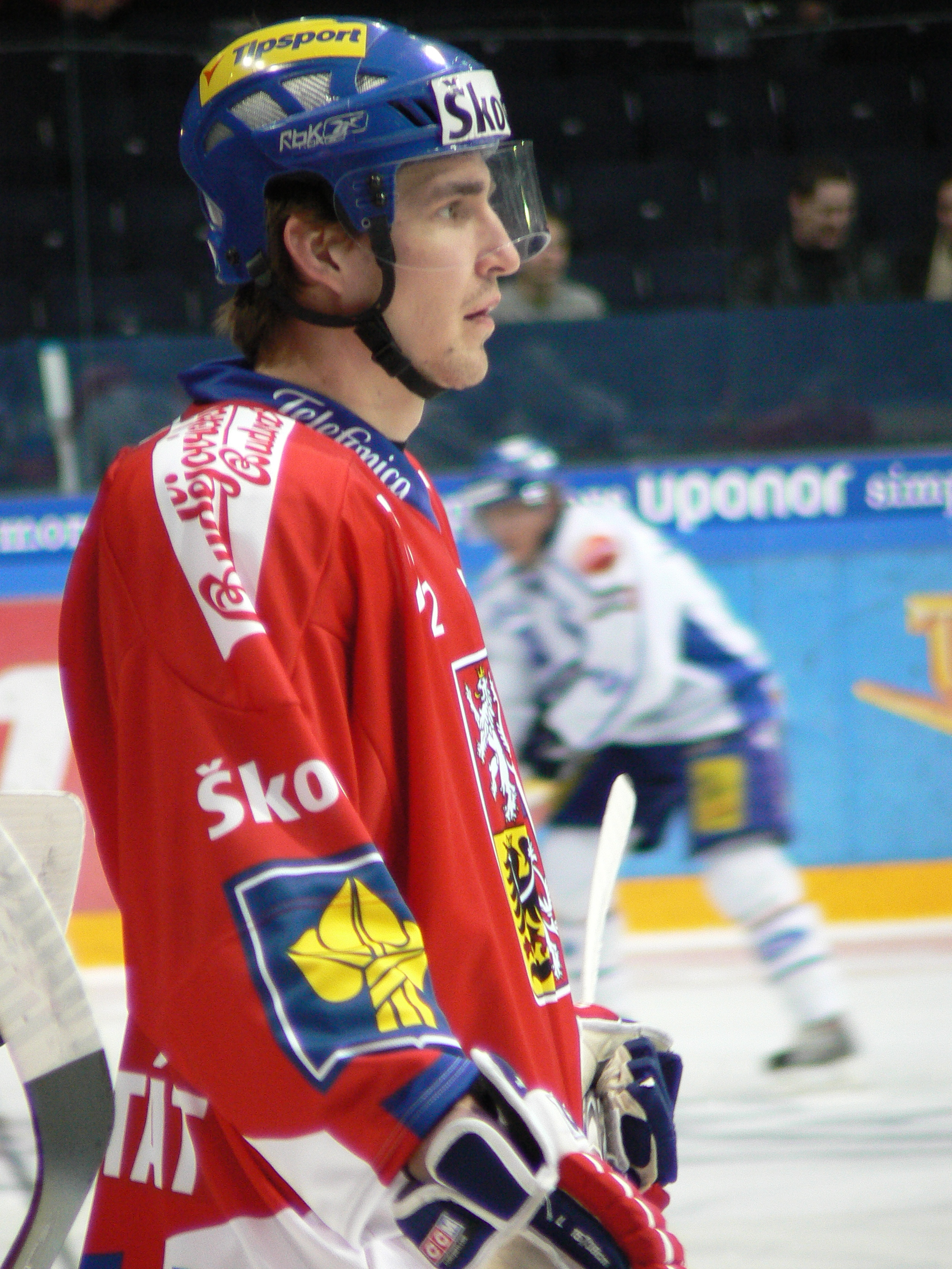 Czech ice hockey forward Petr Kumstát playing for his national team in an LG Hockey Games / Euro Hockey Tour match in Tampere, Finland, February 2008